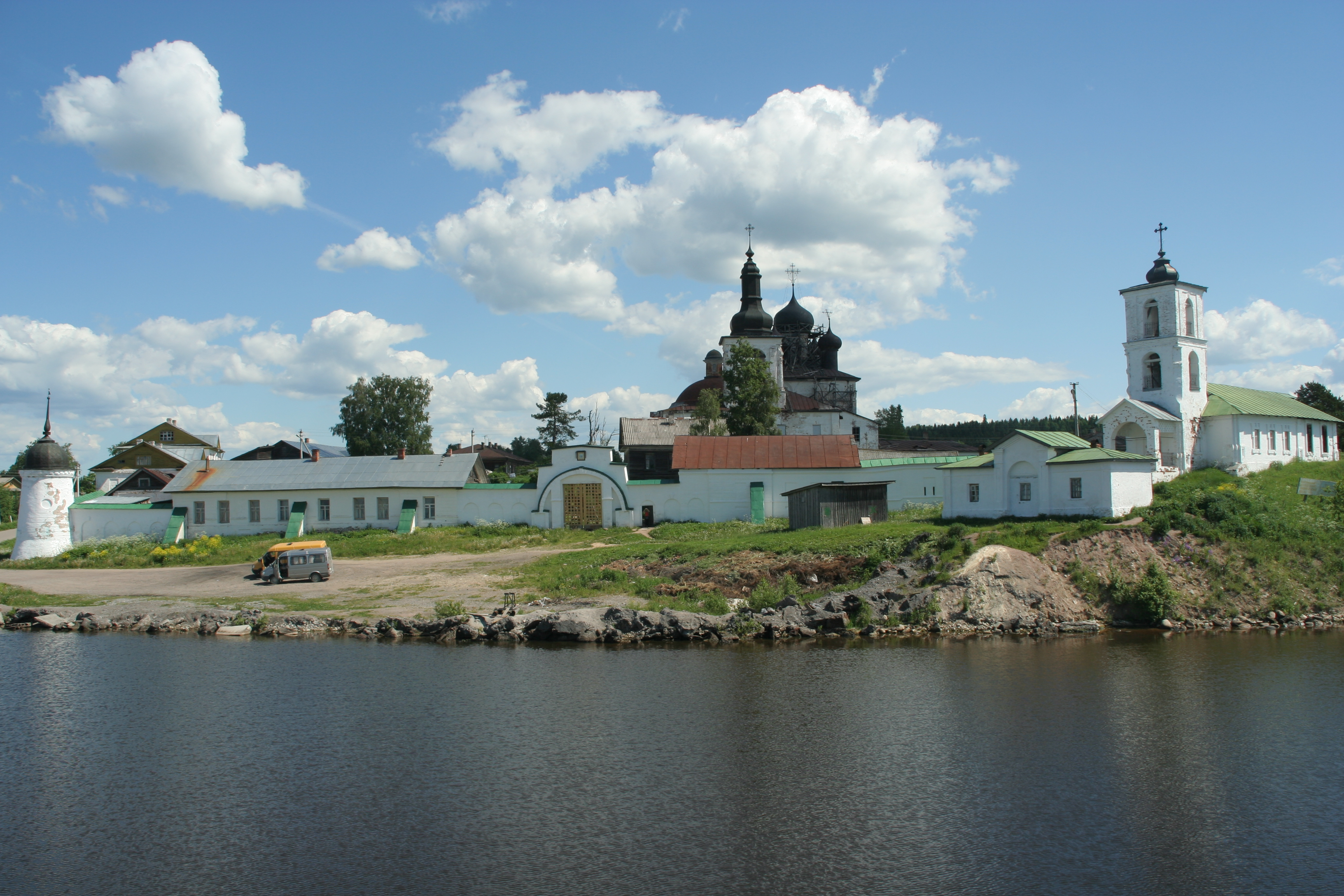 Nunnery in Goritsy